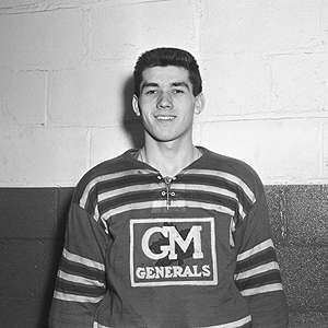 A photo of Lou Jankowski in 1950 while playing for the Oshawa Generals